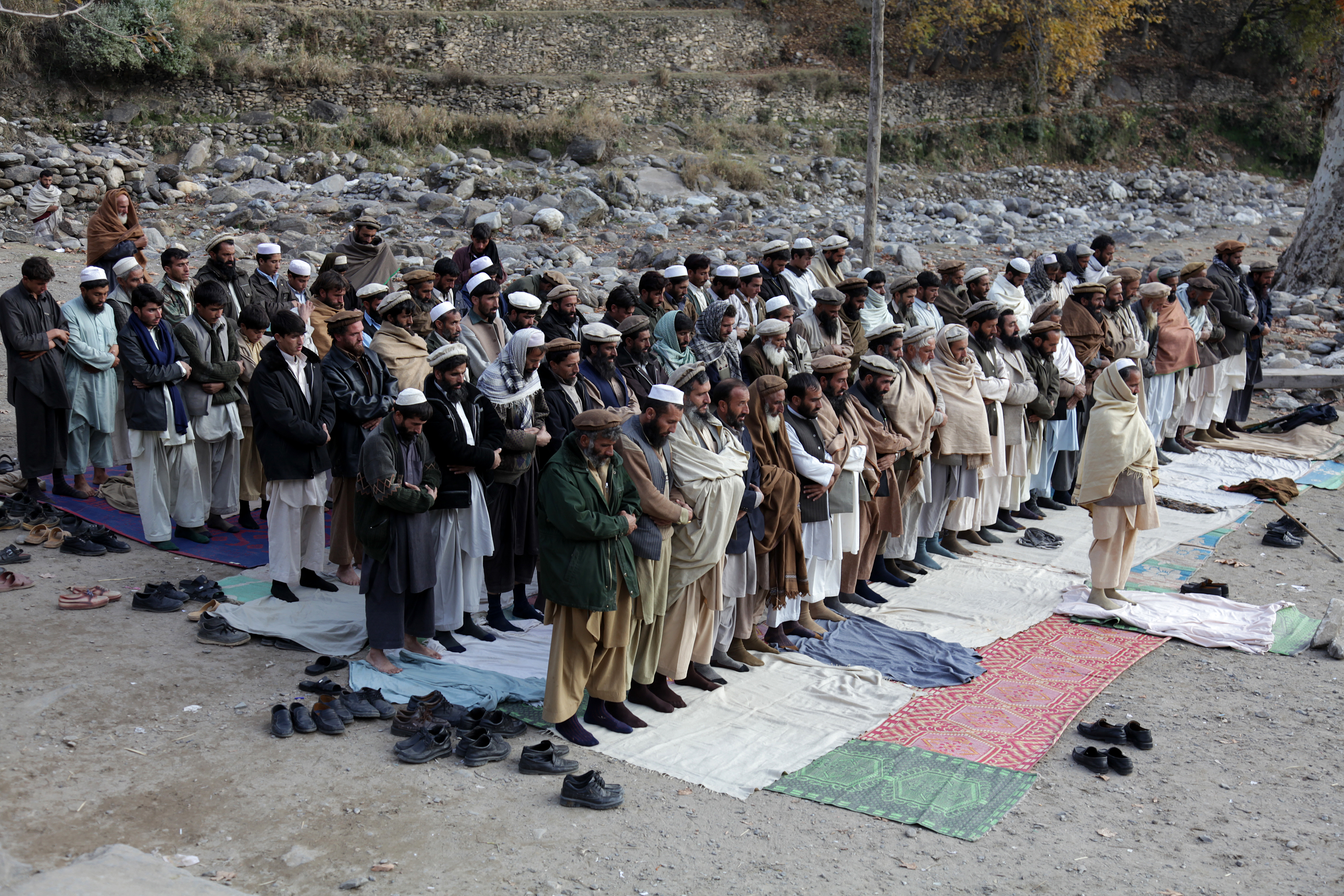 Afghan nationals conduct their afternoon prayer after a key leader's engagement with U.S. Army Soldiers assigned to Combat Company, 1st Battalion, 32nd Infantry Regiment, 3rd Brigade Combat Team, 10th Mountain Division, at the Lachey Village in the Shigal district of Kunar province, Afghanistan on Dec. 7. (Photo ID: 232627)